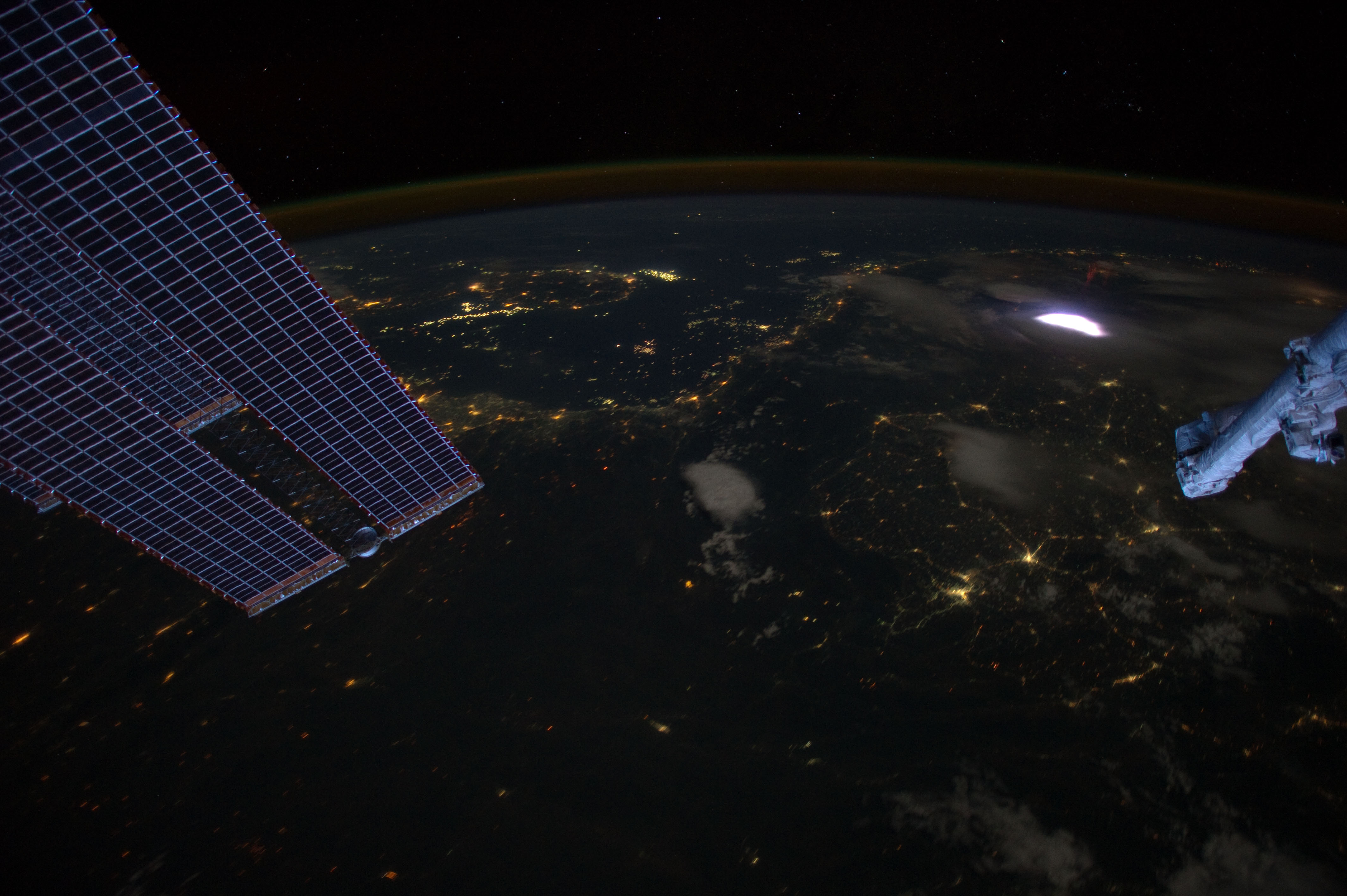 Image of a Sprite, as seen from the ISS. This is a still image from a time-lapse movie.